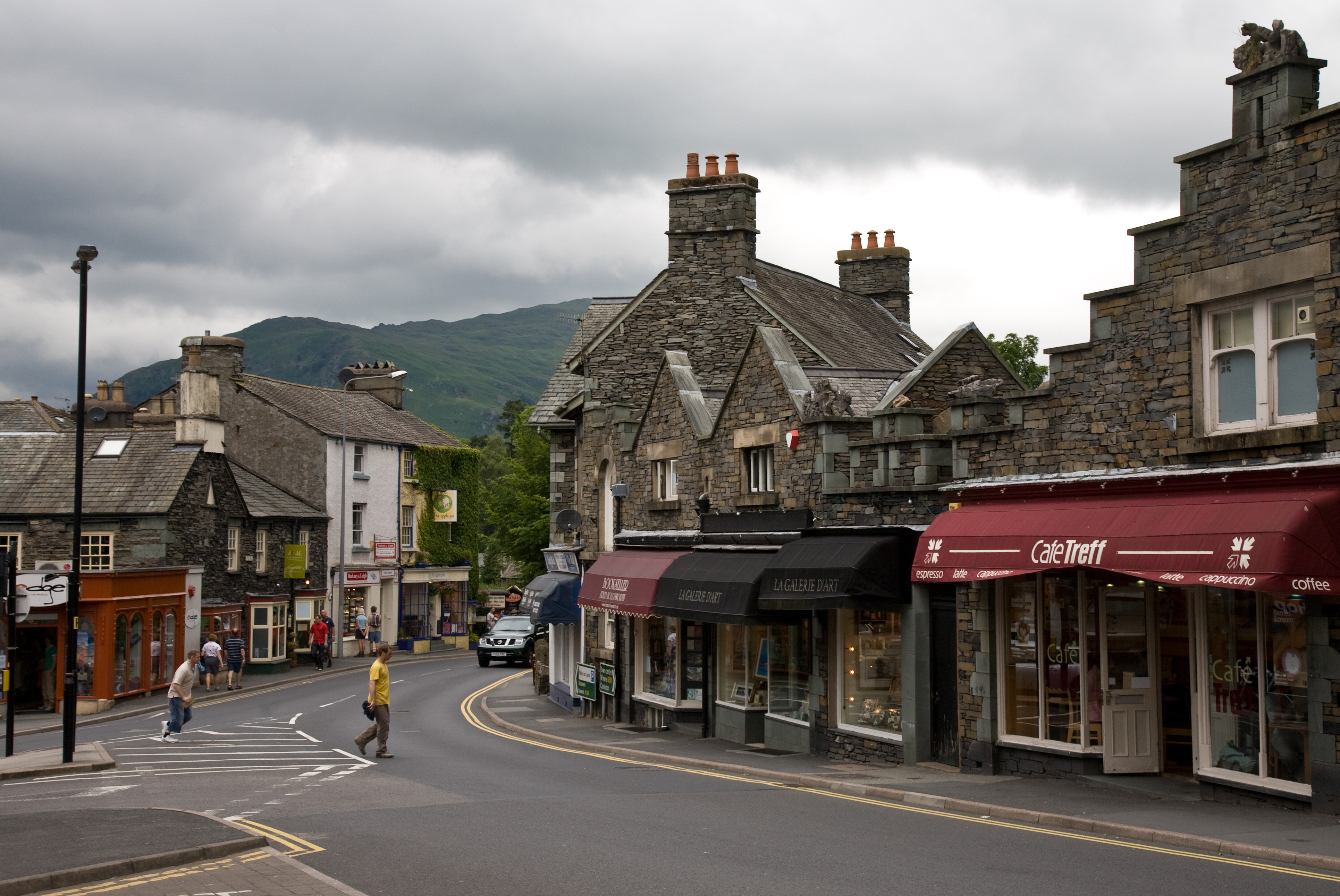 The main road (Rydal Rd) through Ambleside in the Lake District, Cumbria, England.